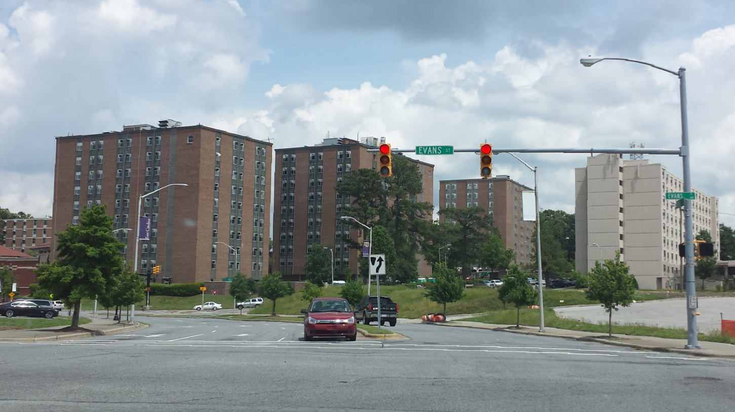 Dormitory buildings in Downtown Greenville, North Carolina